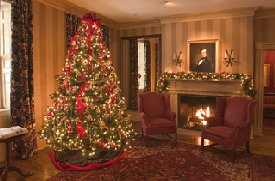 Aurora inn holiday lobby